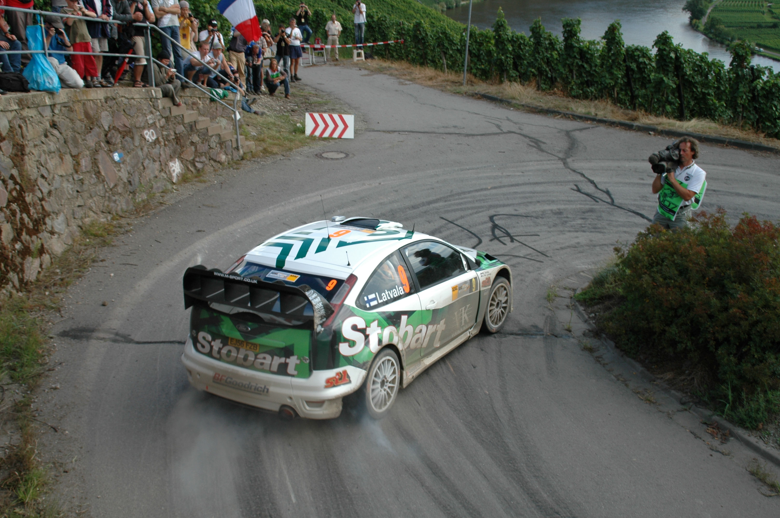 Jari-Matti Latvala driving his Ford Focus RS WRC 06 at the 2007 Rallye Deutschland.